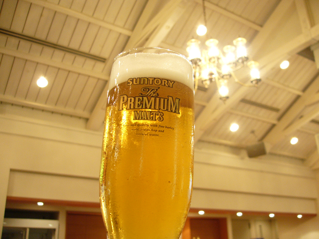 suntory the premium malt's in the glass